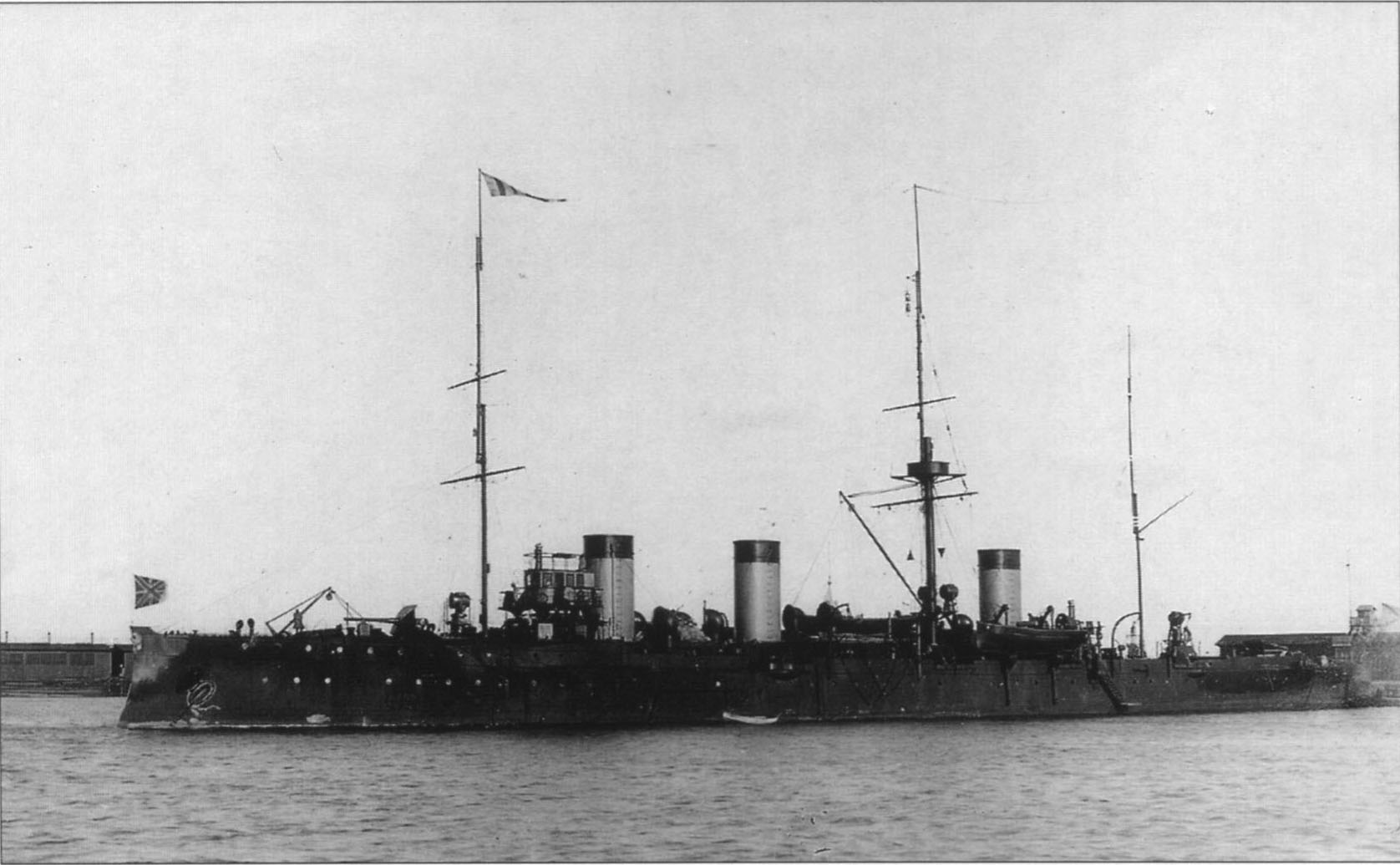 The Imperial Russian cruiser Izumrud.